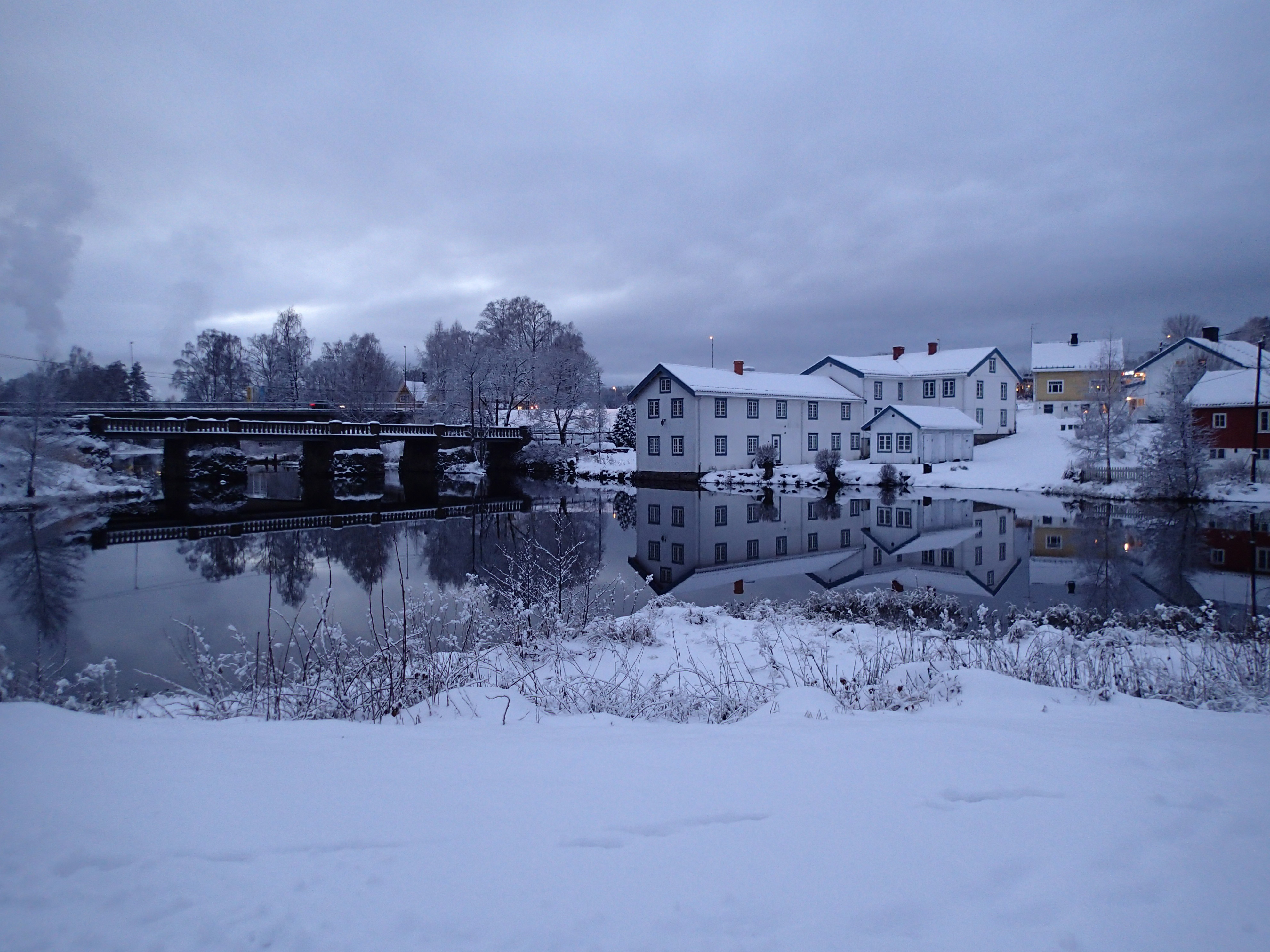 Speiling ved Eidsvoll